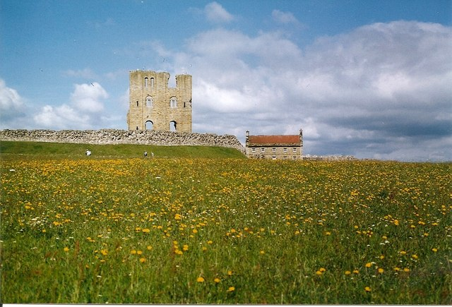 Scarborough Castle including the keep, the curtain wall and the master gunner's house